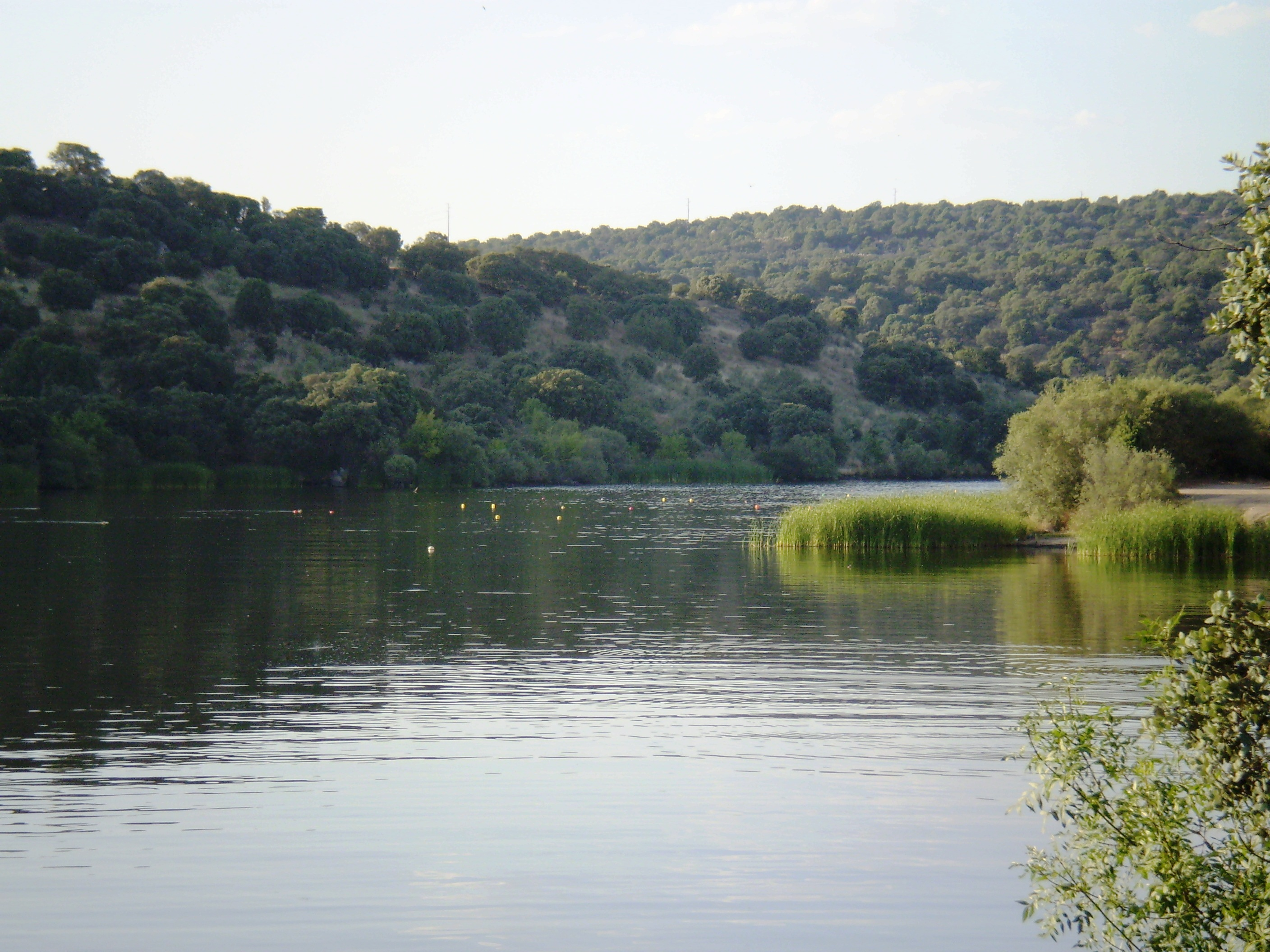 Cerro Alarcón Reservoir, over Perales River. Community of Madrid, Spain